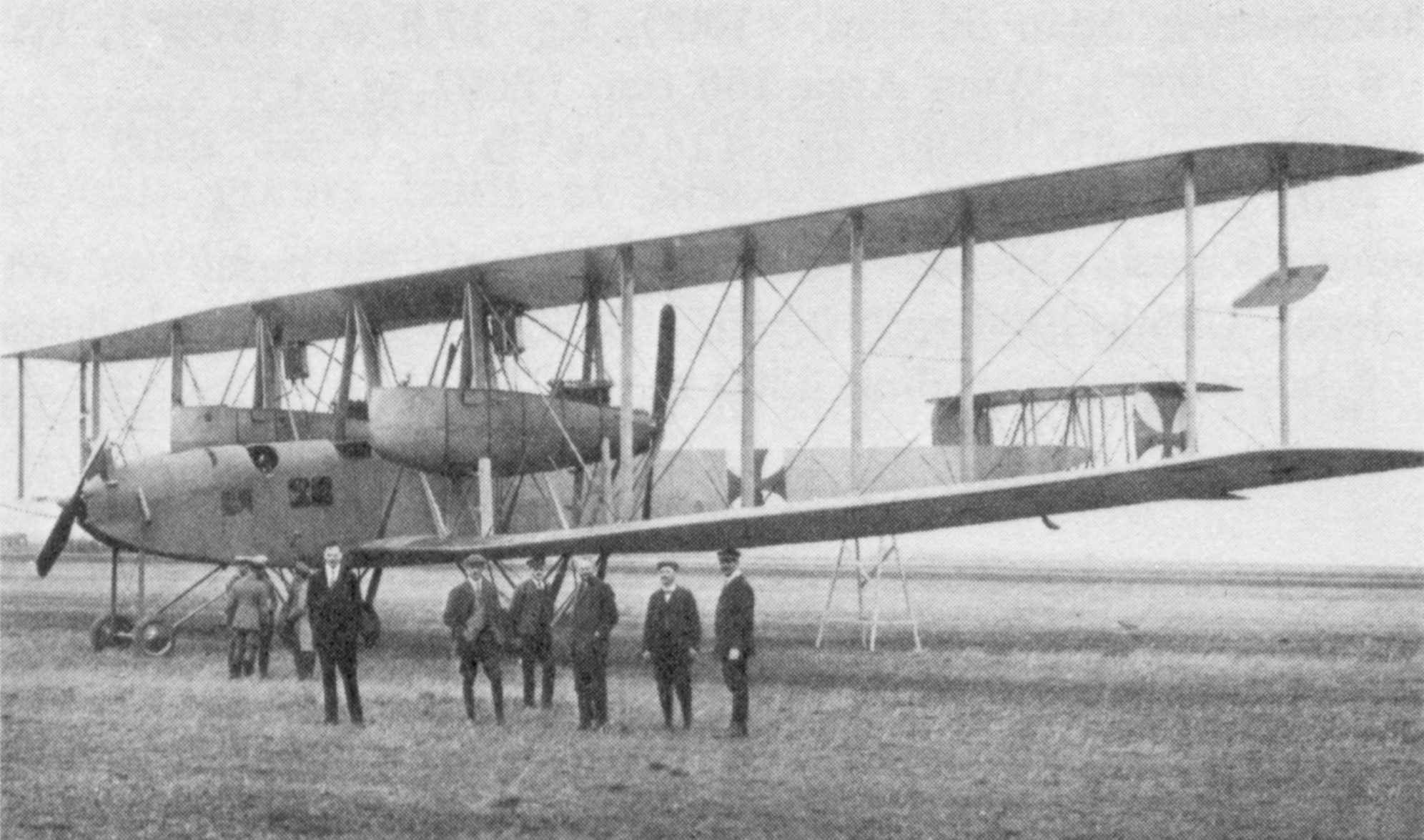 Photo of third Zeppelin-Staaken "giant" bomber, the VGO.III of 1916.